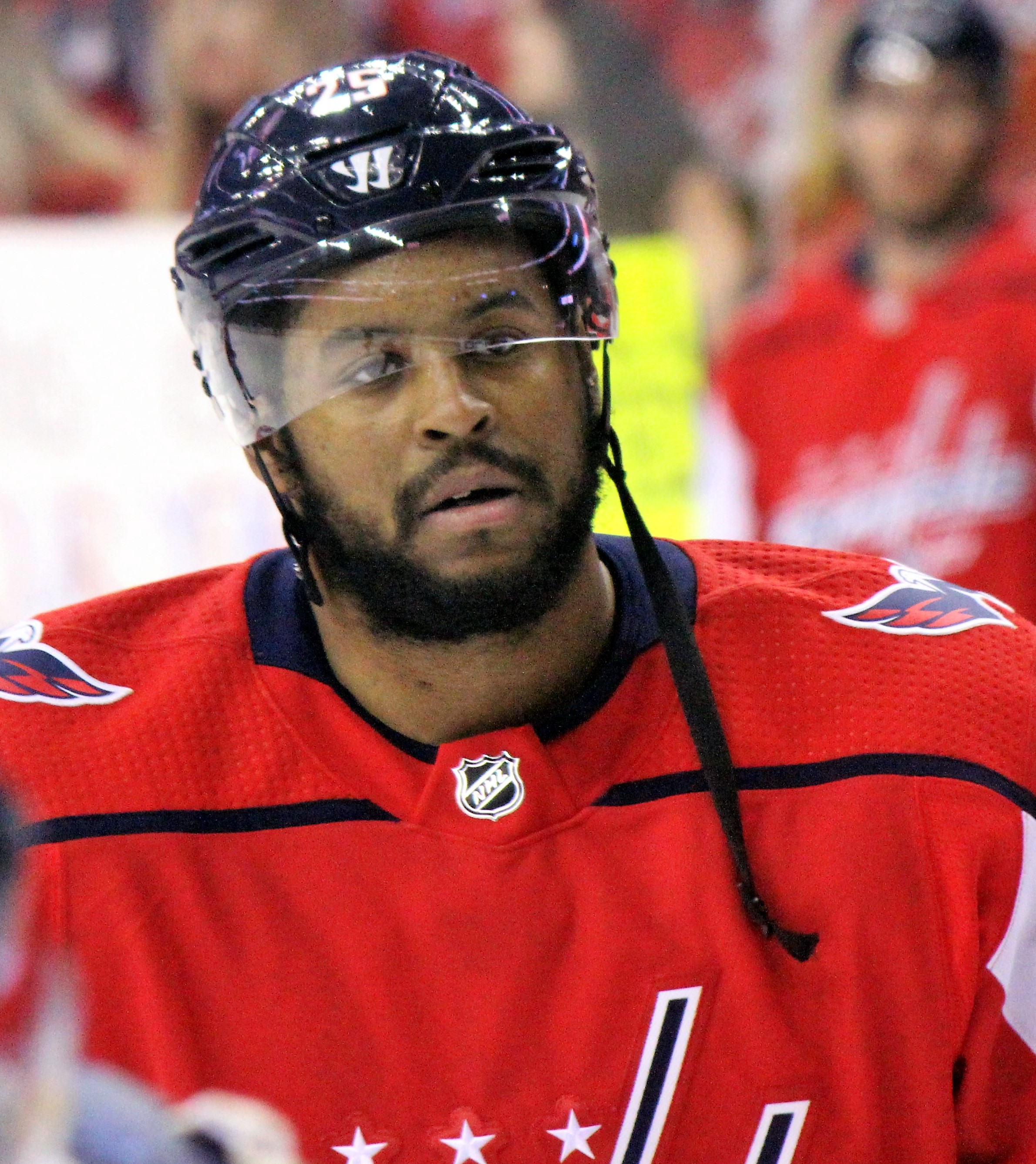 Washington Capitals forward Devante Smith-Pelly during game 2 of the Eastern Conference Semifinals series against the Pittsburgh Penguins, April 29, 2018, at Capital One Arena in Washington, D.C.